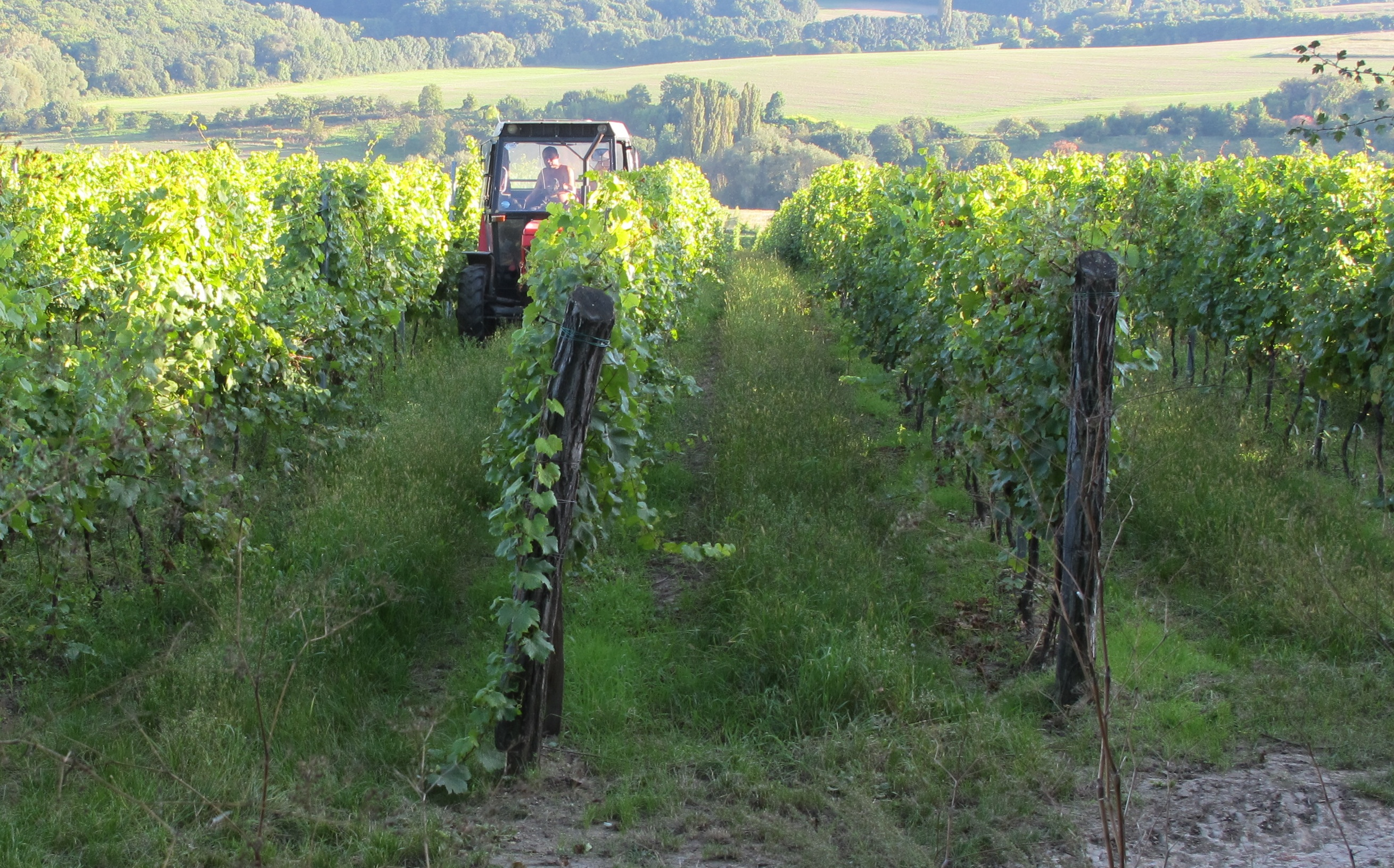 Vineyard with tractor between Klentnice and Pavlov, Břeclav District